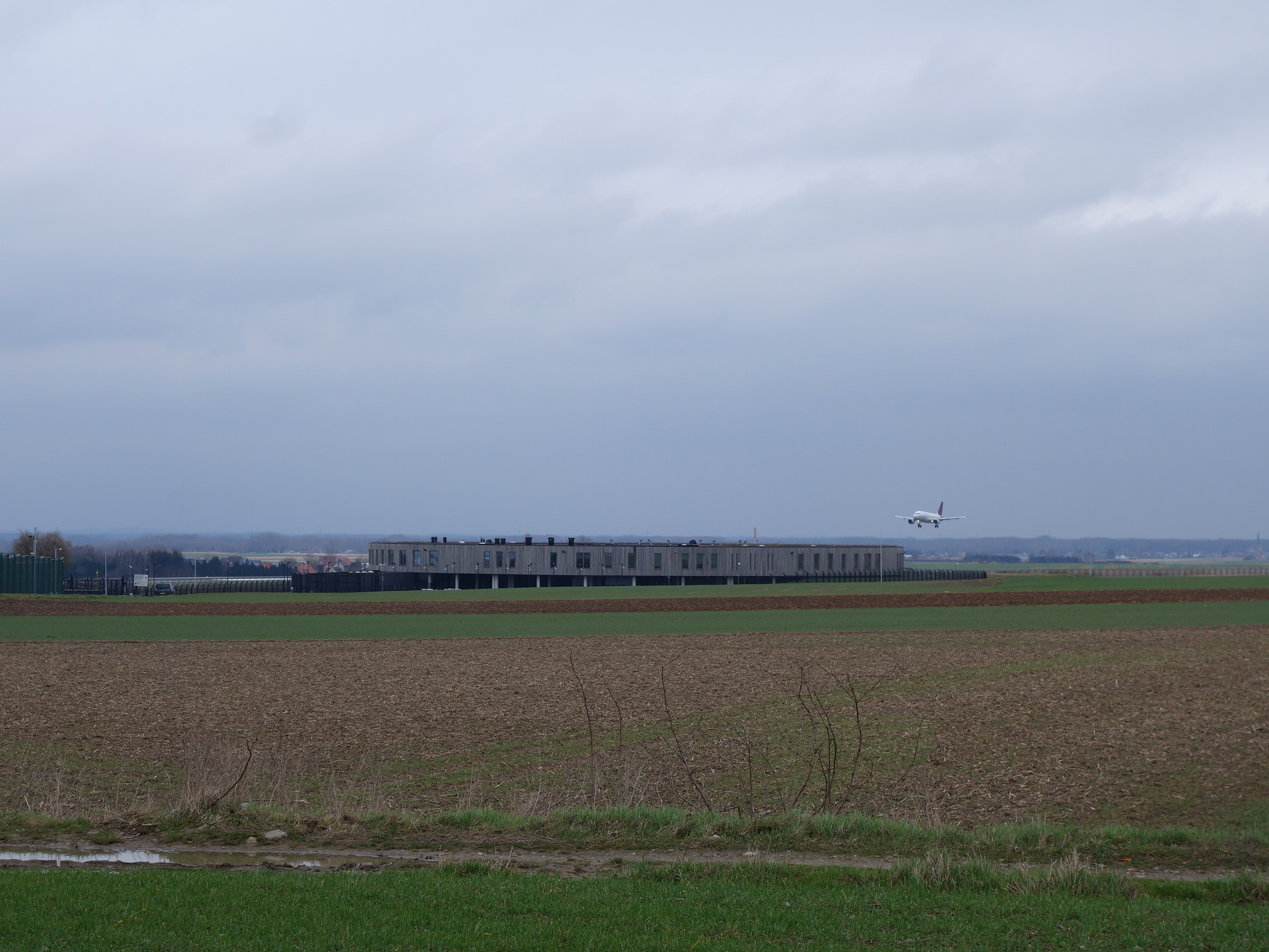 Closed centre Caricole (within the Brussels Airport enclosure)